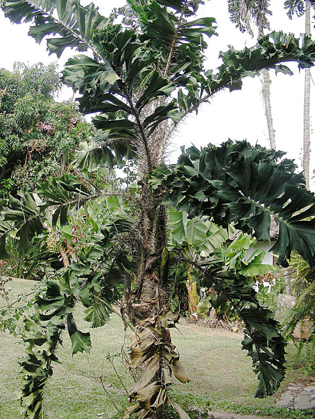 Ugly and thorny, but widely planted and appreciated for its fruit. Also known as the Ruffle Palm or as Mararay, and as Macahuitl after an Aztec weapon. Photo from an estate near Manizales, Colombia. In context at